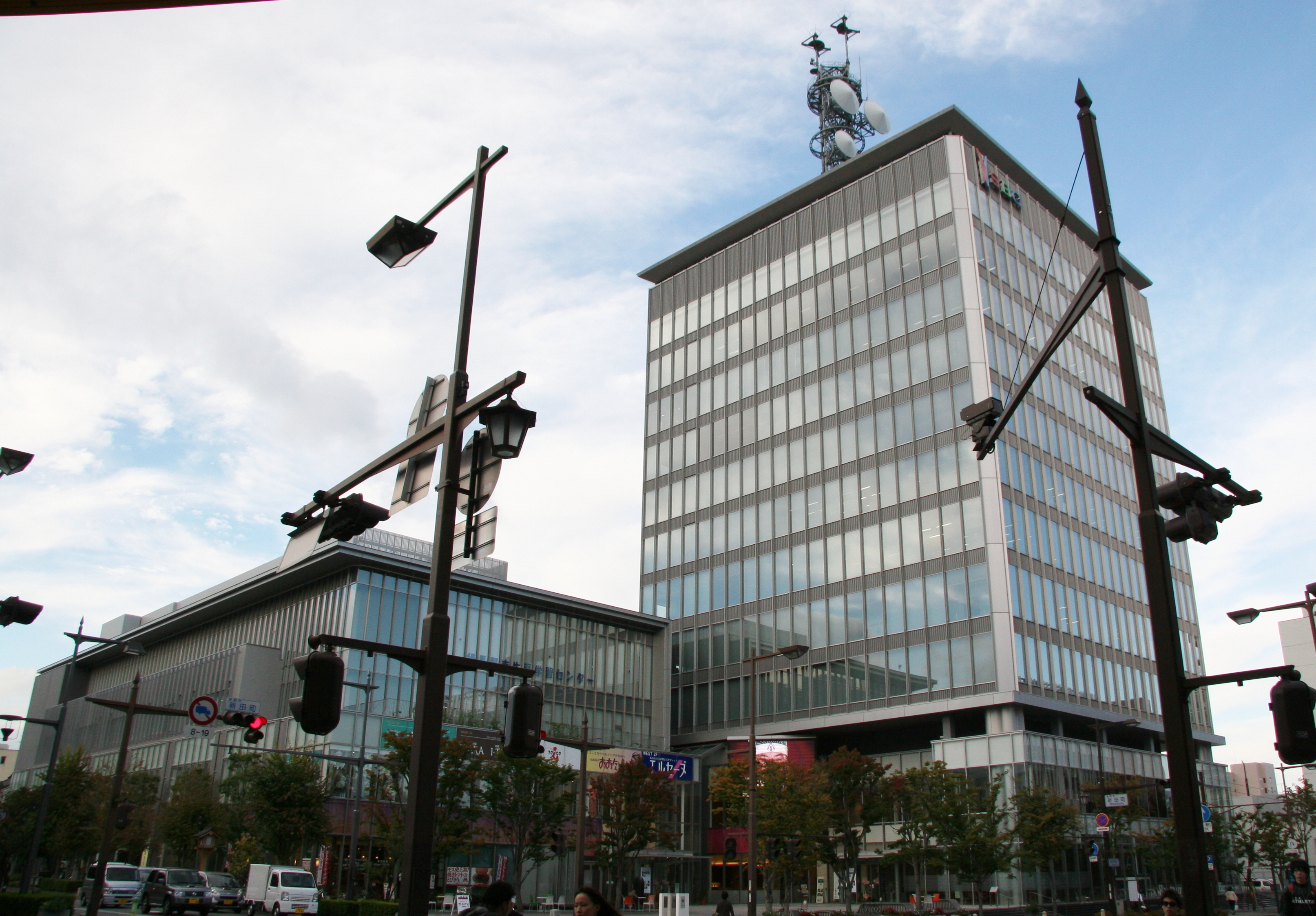 Buildings of TOiGO in Nagano, Nagano. The tower on the right is called TOiGO SBC, and the building on the left is TOiGO WEST, respectively.